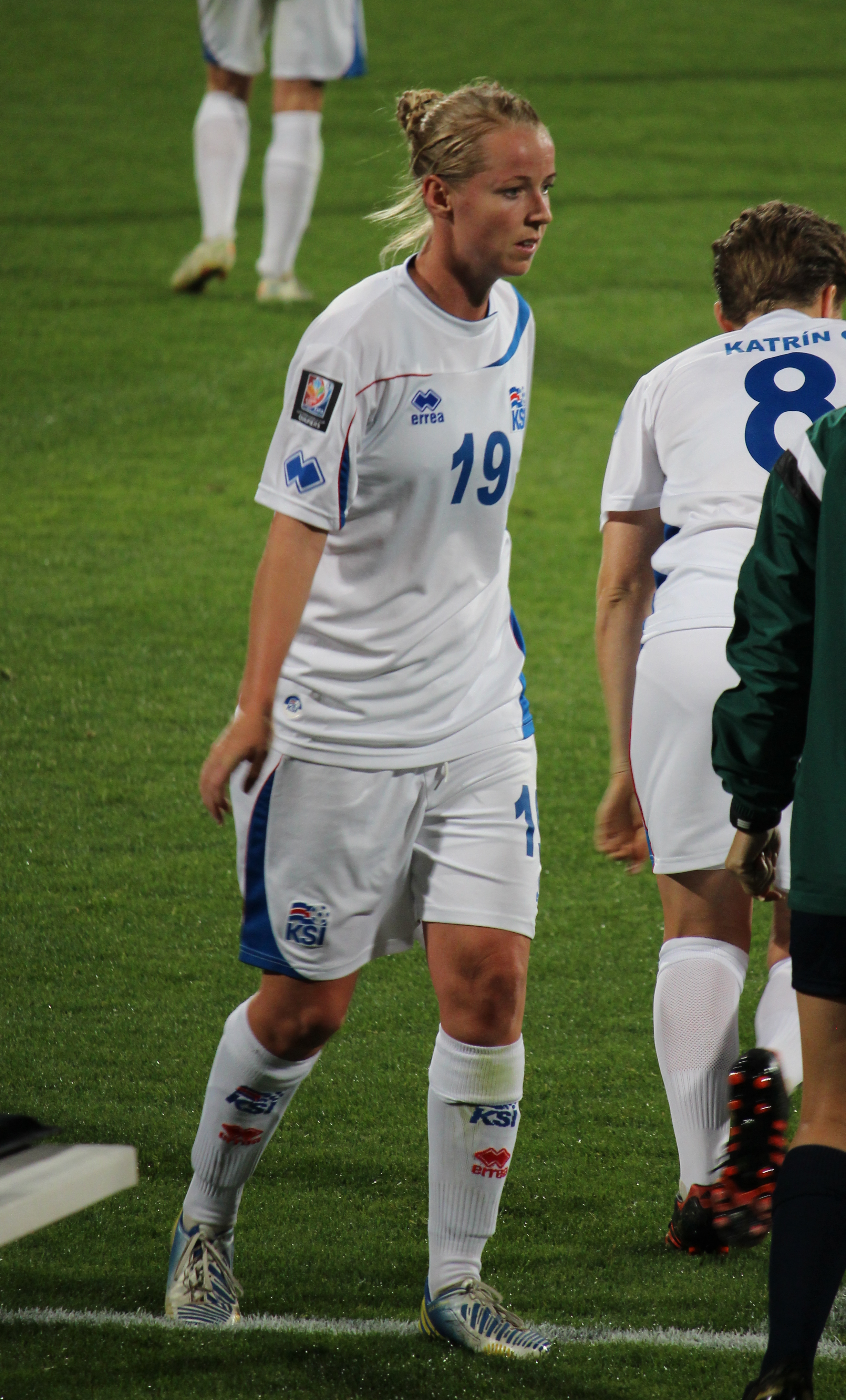 Þórunn Helga Jónsdóttir. Israel - Iceland, 2015 FIFA Women's World Cup qualification UEFA Group 3, 5 April 2014.